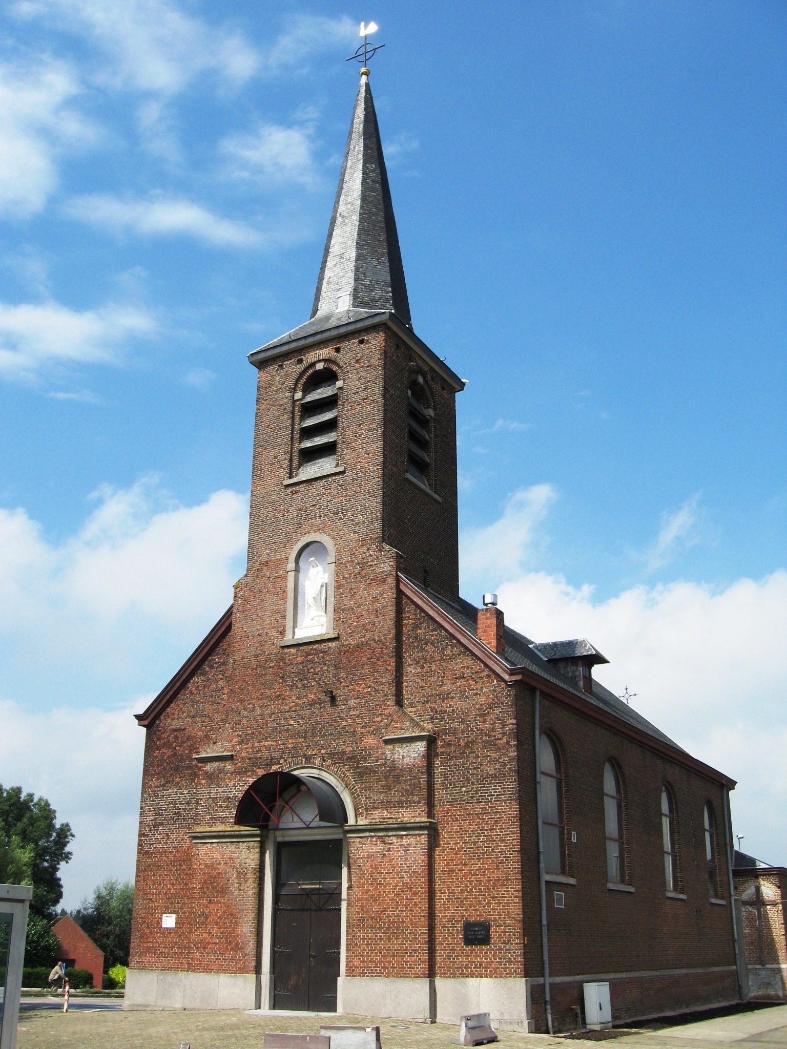 Church of the Assumption of Our Lady in Kwaadmechelen (Genendijk), Ham, Limburg, Belgium